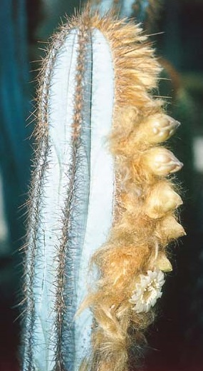 plant of holotype collection, Minas Gerais, Brasil